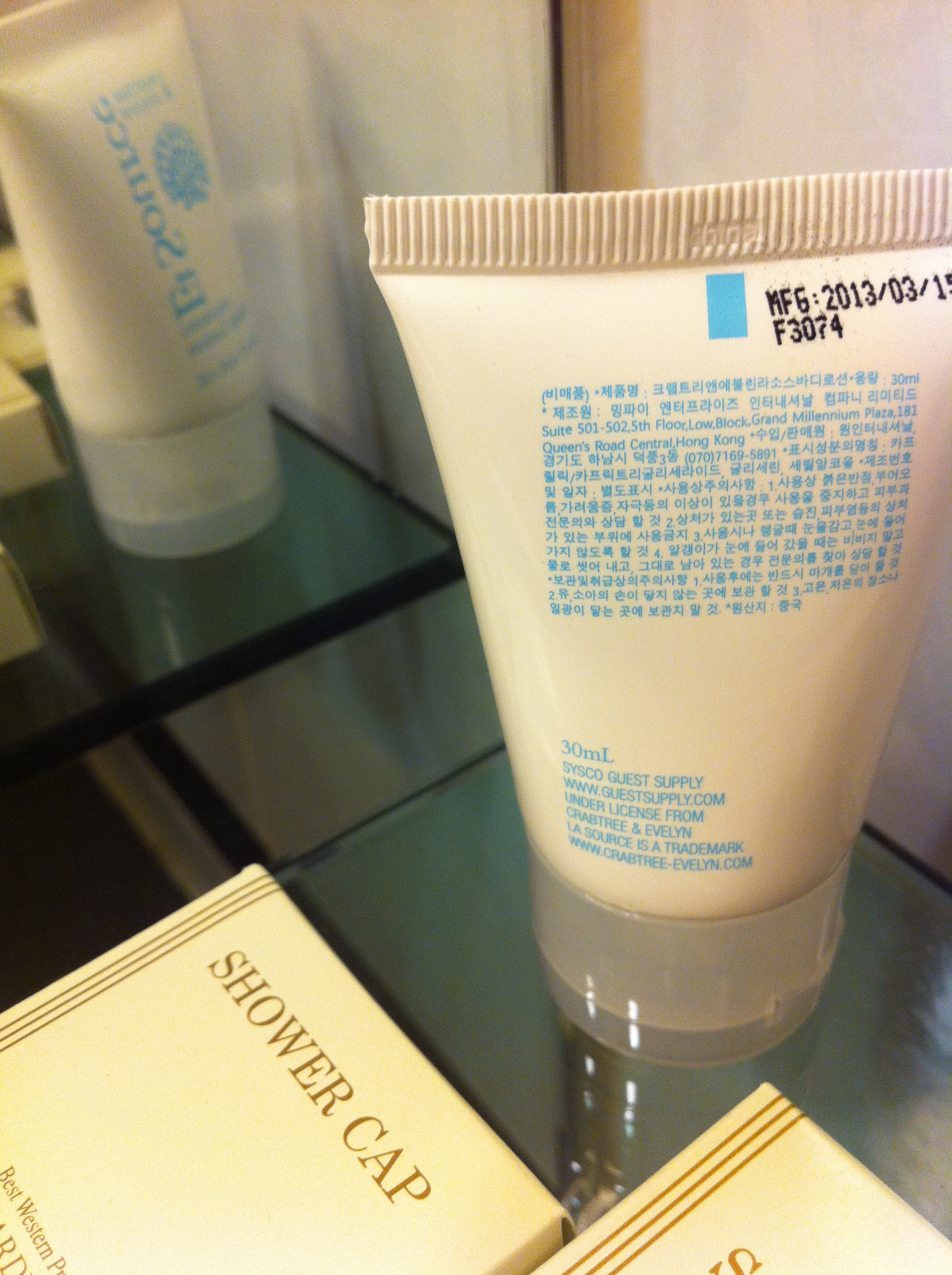 首爾 南韓首爾西佳花園飯店, Best Western Premier Seoul Garden Hotel Best Western, Seoul, South Korea